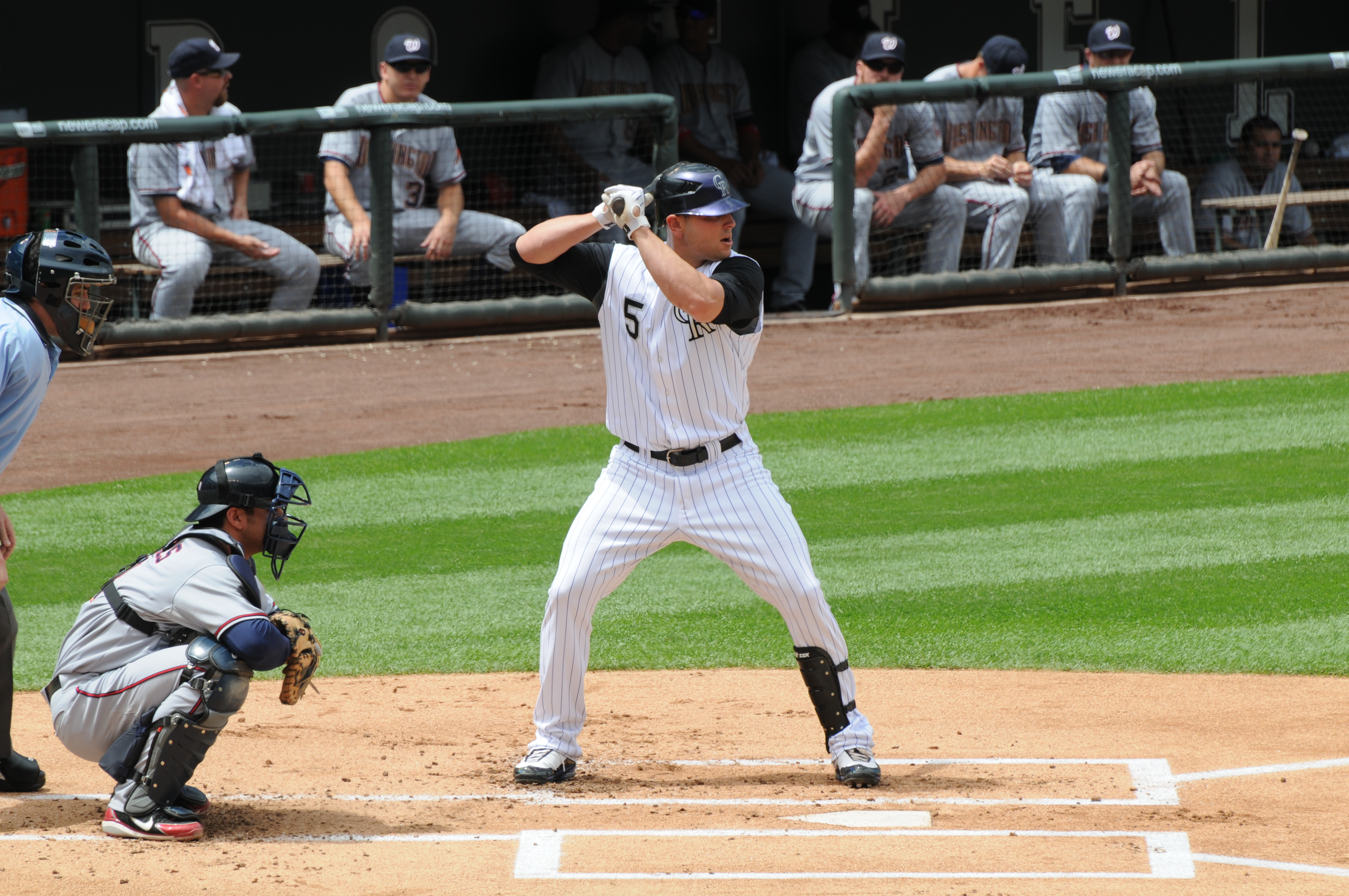 Description own work DateSourceI created this work entirely by myself.AuthorOnetwo1 (talk) 17:02, 8 August 2008 . . Onetwo1 . . 4,288×2,848 (3.02 MB) own work